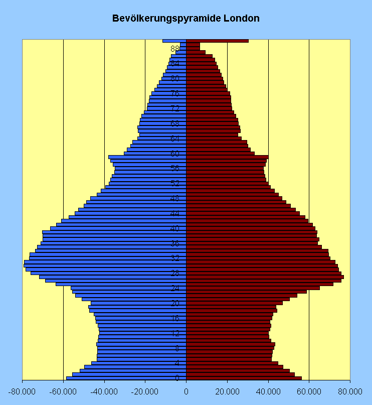 Population pyramid of the City of London in 2006